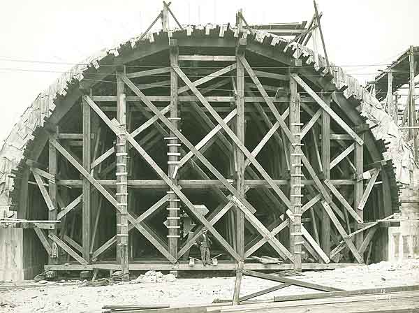 57' Span Arch Ring and Falsework (from the Sydney Harbour Bridge photo albums) Dated: 1/10/1929 Digital ID: 12685_a007_a00704_8724000046r Rights: We'd love to hear from you if you use our photos/documents. Many other photos in our collection are available to view and browse on our website using Photo Investigator.